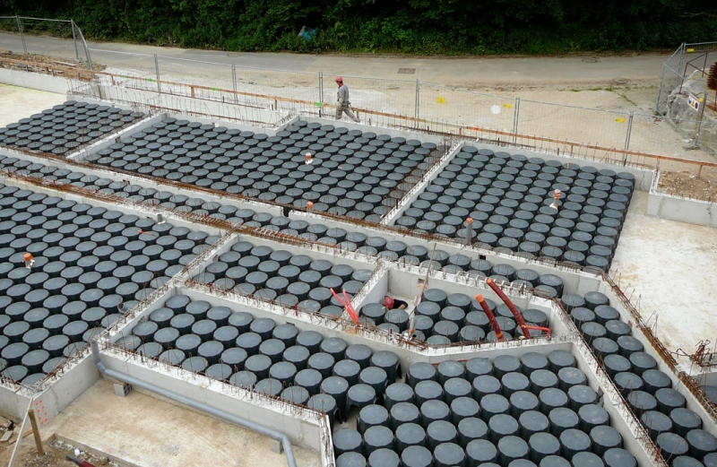 Vespaio aerato per edificio ad uso residenziale